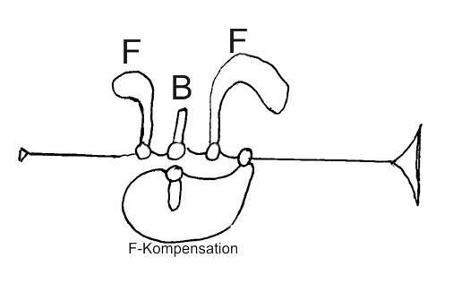 Sketch of the pipe of the partial/double Aebi Horn